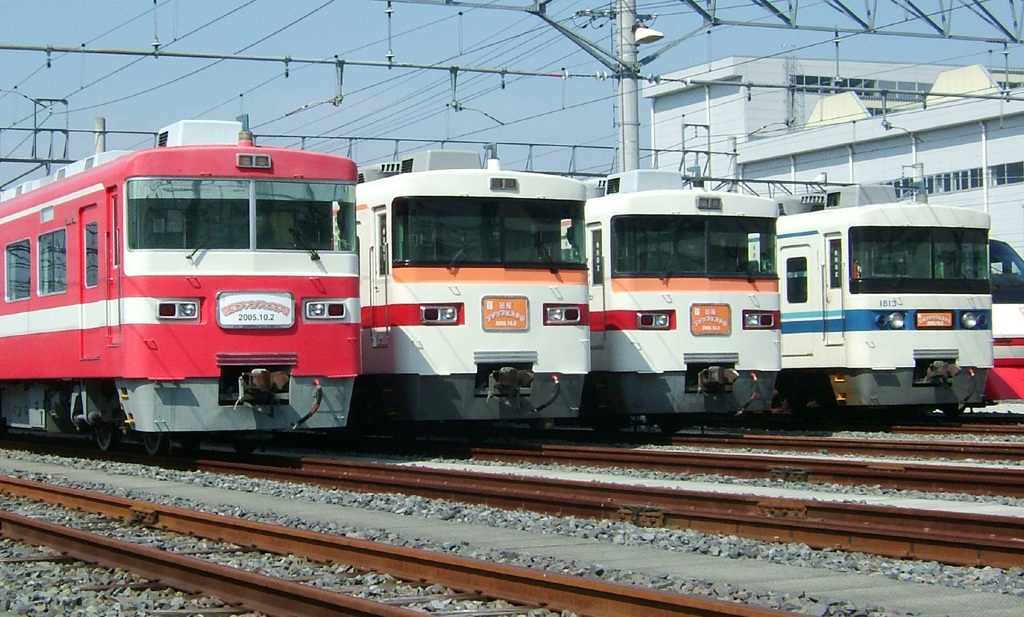 Tobu 1800, 350, 300, and 1800 series (left to right) EMUs lined up at Minami-Kurihashi Depot open day